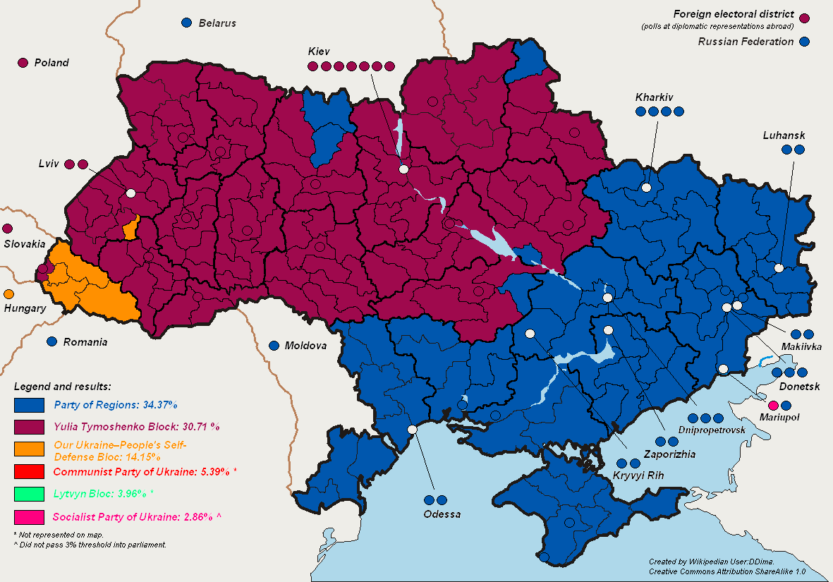 First-place results in the Ukrainian parliamentary election, 2007. Compare with second place results. Legend: Party of Regions Yulia Tymoshenko Bloc Our Ukraine–People's Self-Defense Bloc Communist Party of Ukraine Lytvyn Bloc Socialist Party of Ukraine (did not pass 3% threshold)